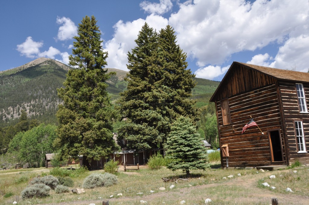 Historic buildings (part of a US Forest Service interpretive area) in Twin Lakes; part of the historic Twin Lakes District.